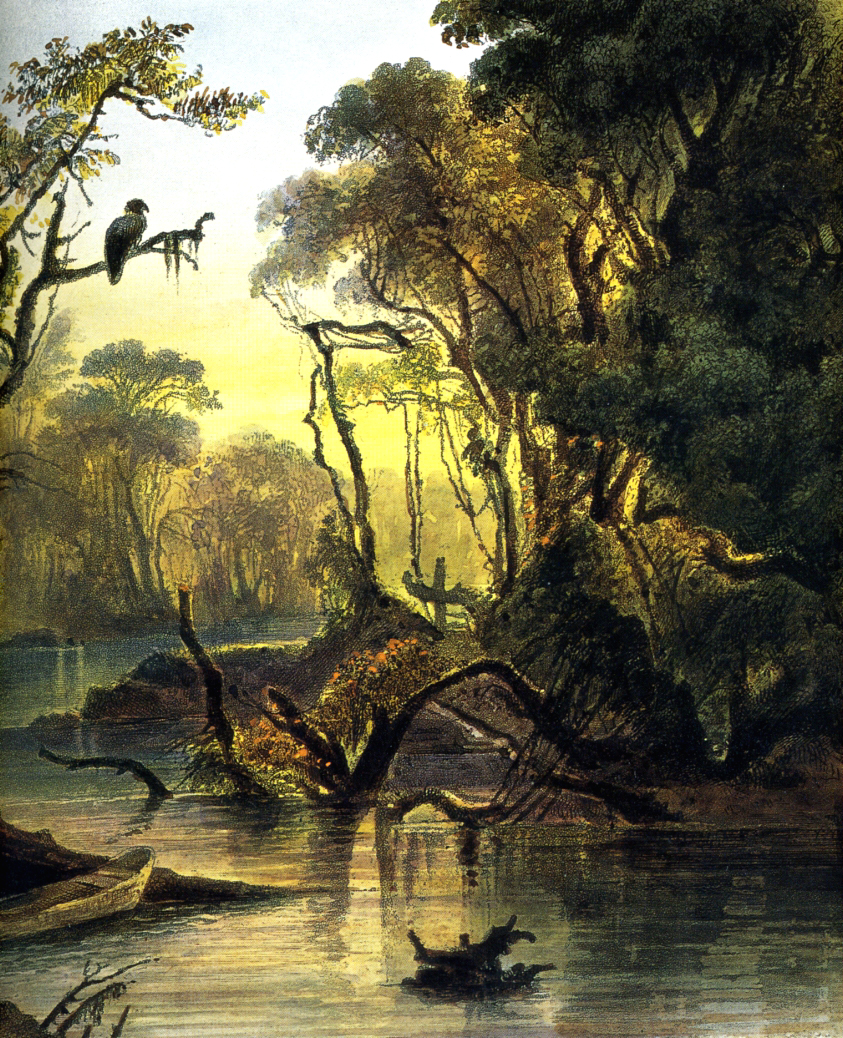 The Wabash River near New Harmony painted by Karl Bodmer 1832 – 1833.